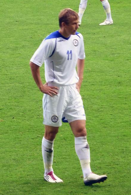 Alexey Chshyotkin, forward of the national U21 kazakh football team. Qualifier against France in Clermont-Ferrand.